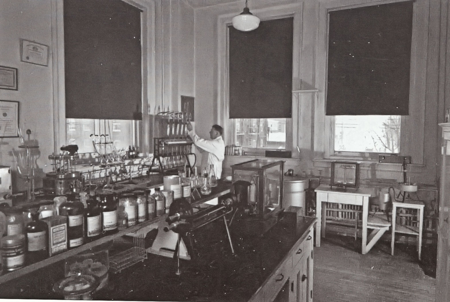 This photo from 1915 shows the laboratory at the Neuweiler Brewery that created the various brews made and sold by the company.